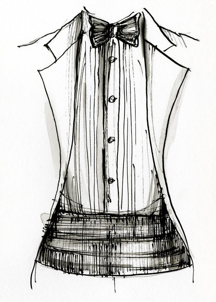 Drawing of the Thesaurus concept : 'cummerbund'. Wide sashes worn around the waist, often horizontally pleated; worn with tuxedoes and as part of miltary uniforms. (AAT)